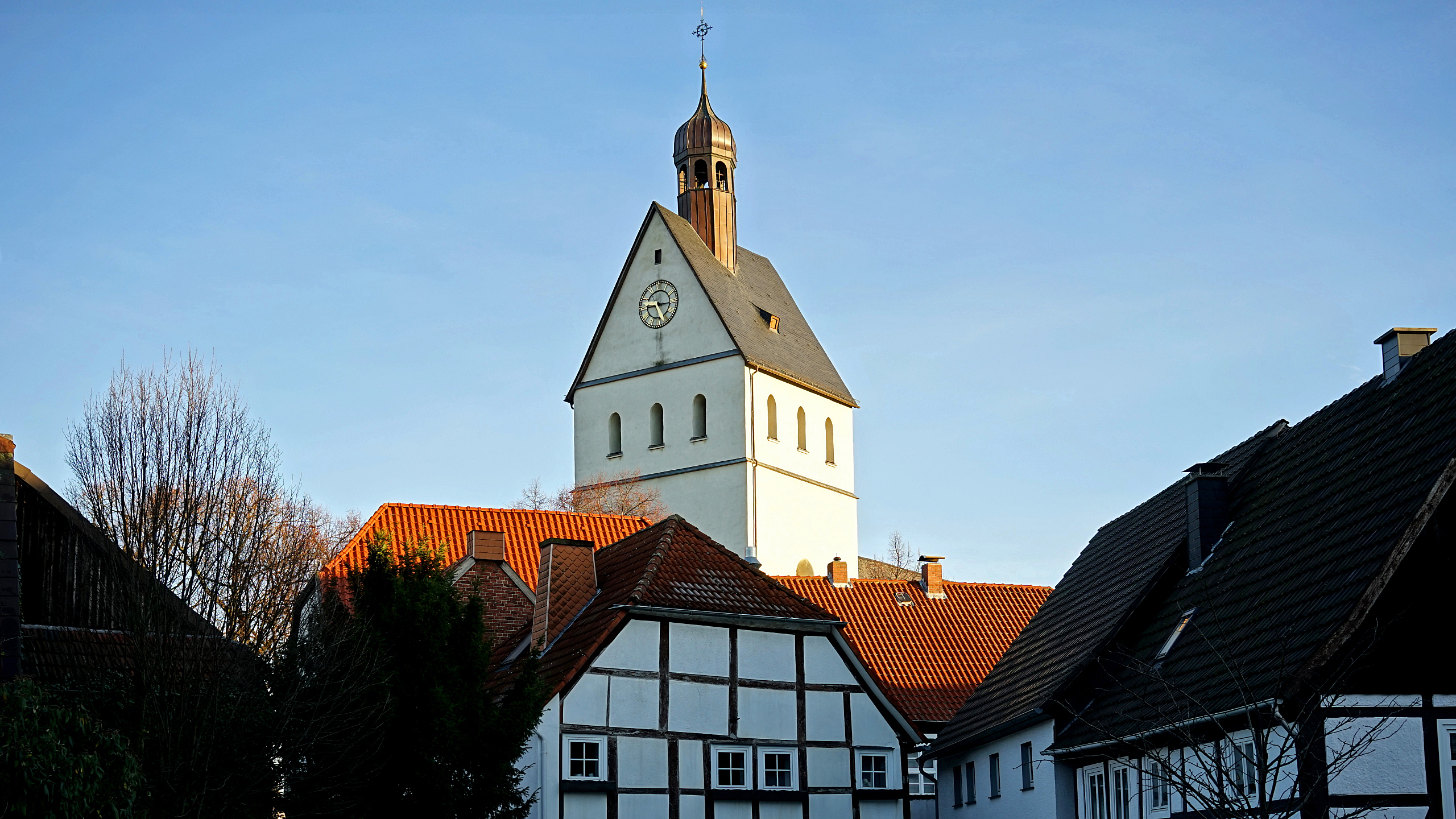 View to St. Johannes Church from historic street.